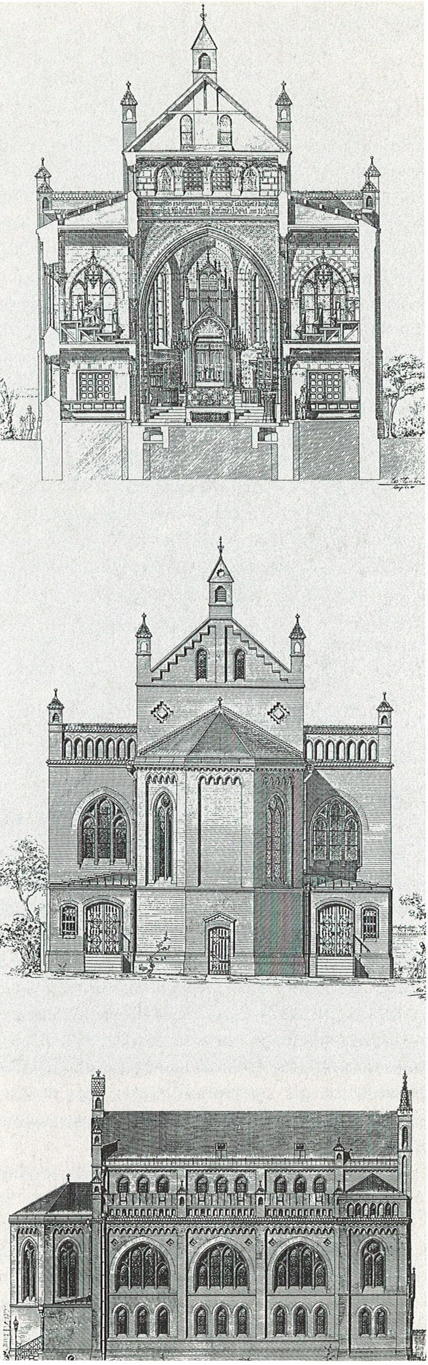 Cross-section of the temple in Schmalzhofgasse, after a blueprint from Max Fleischer. Middle drawing: East side. Lower drawing: North side.